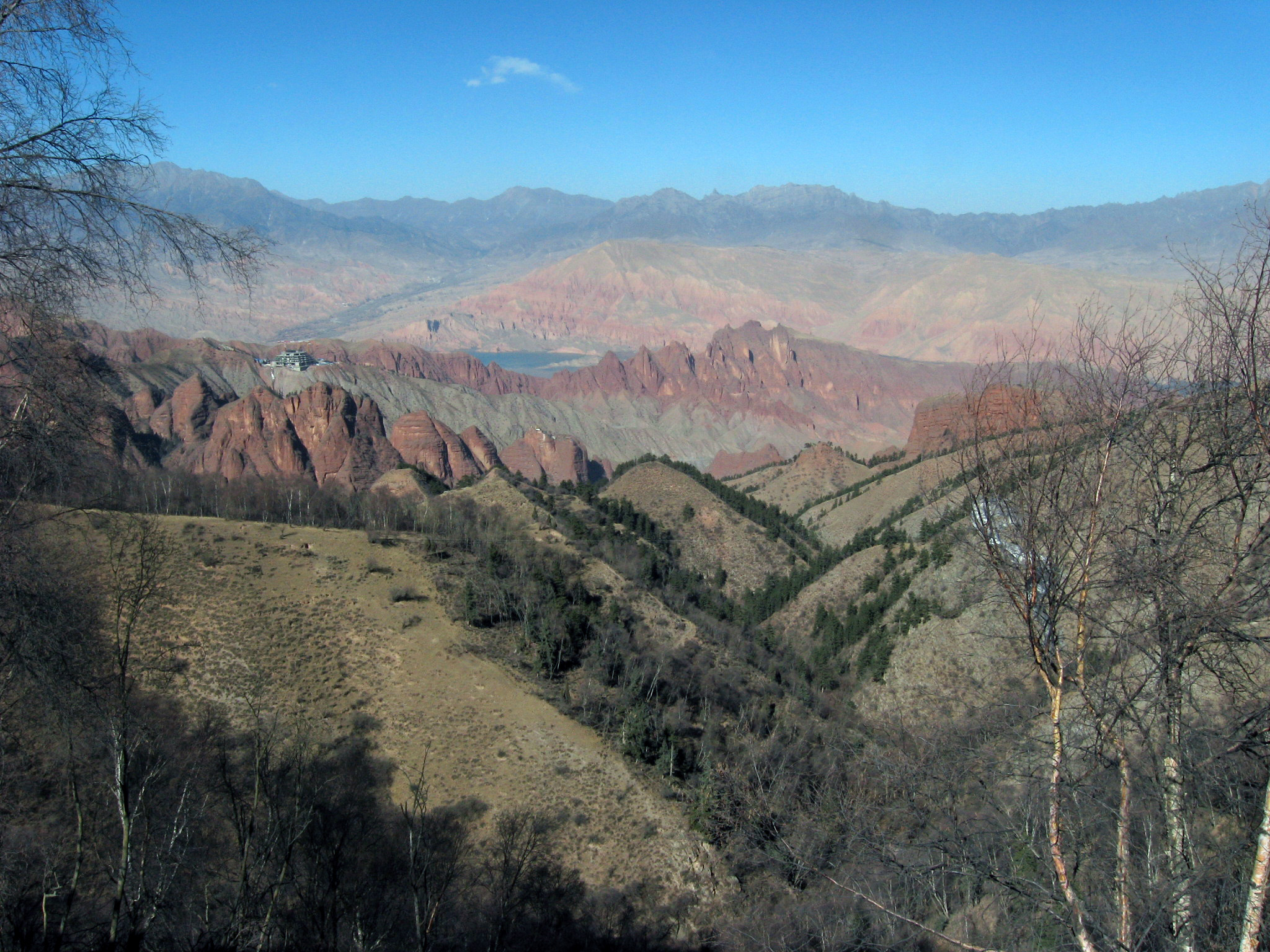 Forest park Khamra